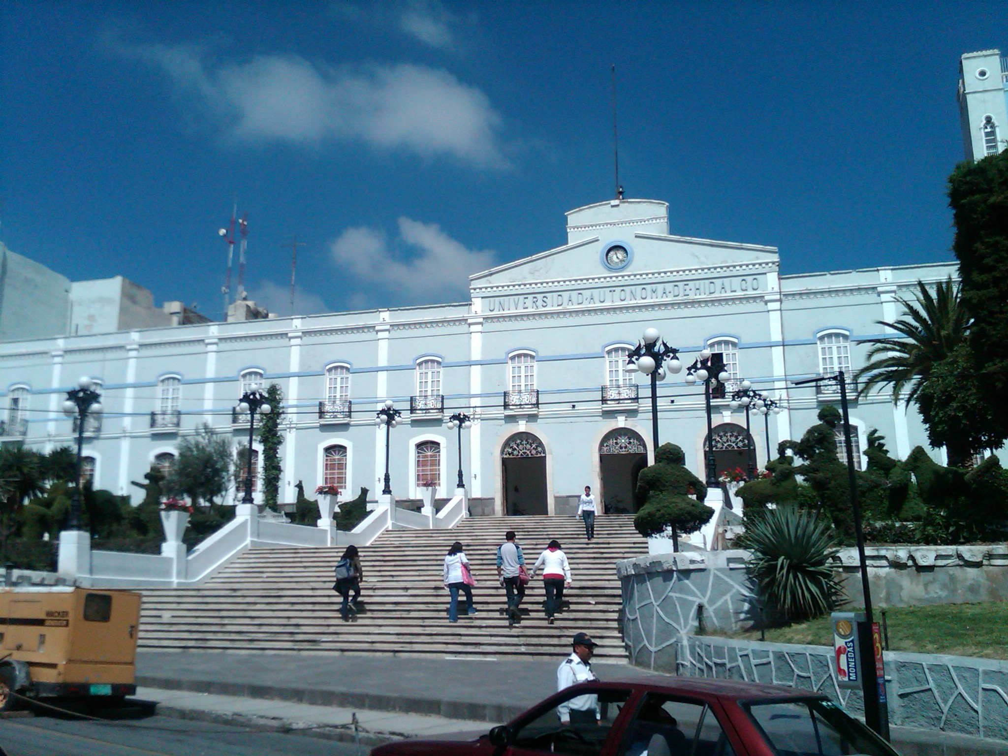 UAEH Central Building